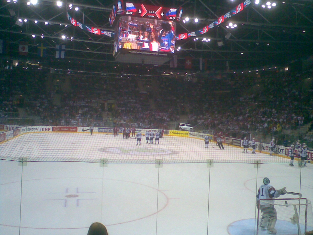 2011 IIHF World Championship: Russia vs. Slovenia 6-4